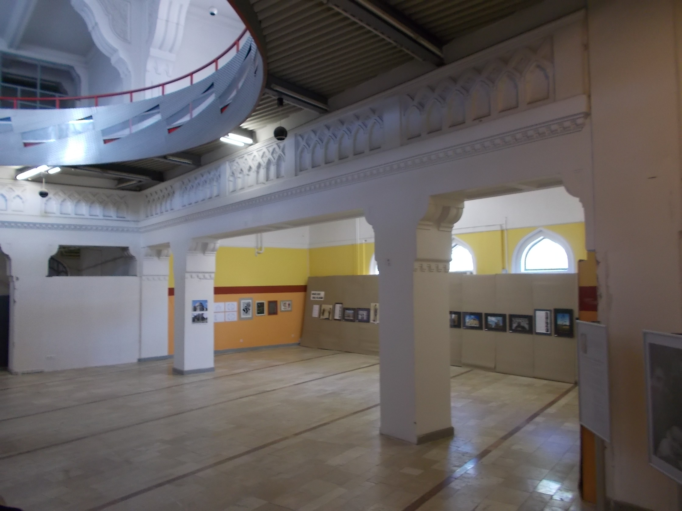 Synagogue. Listed ID -1799. - Vármegye Rd., Gyöngyös, Heves County, Hungary